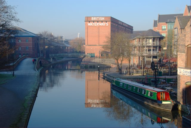 Canalside Nottingham